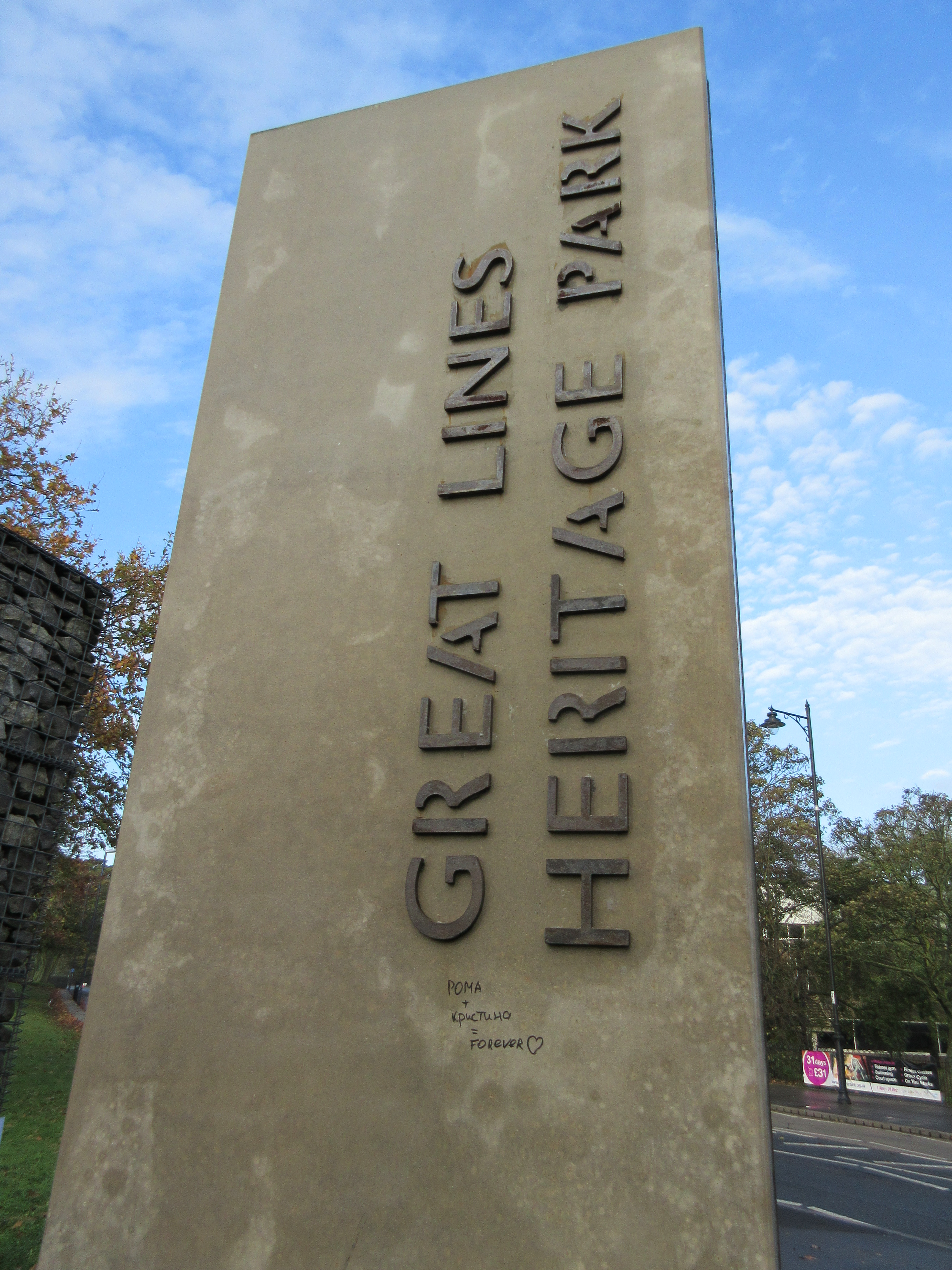 This metal sculpture is on Brompton Road, one of the entrances to the park.